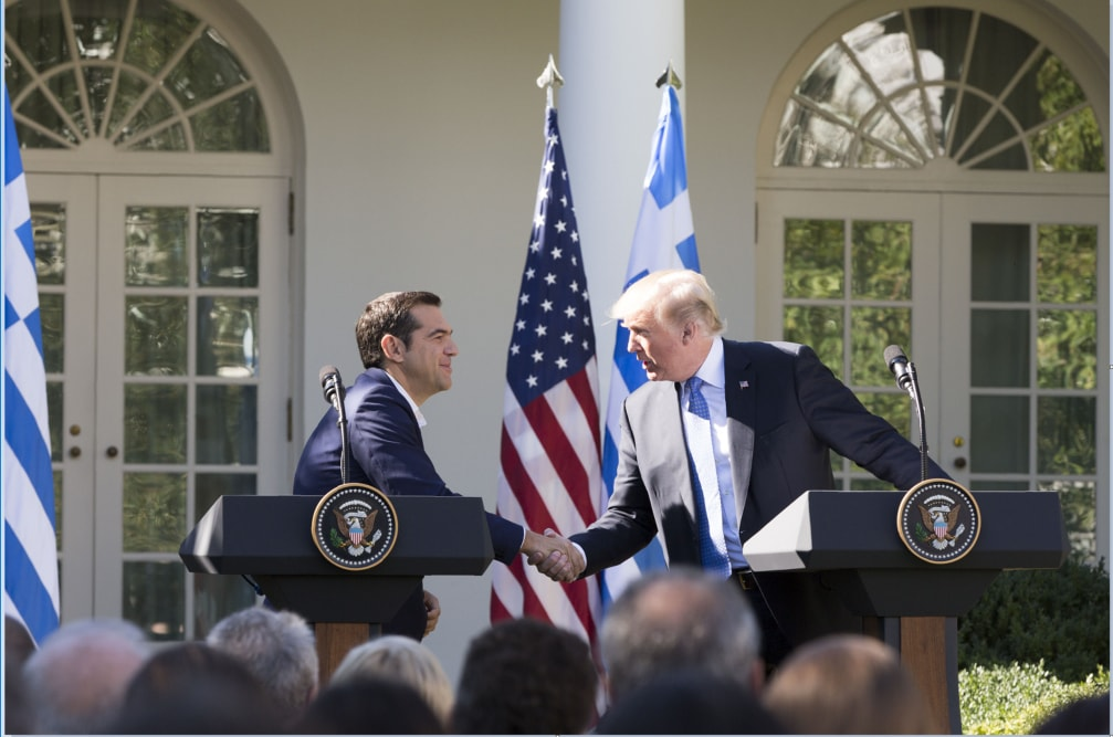 President Donald J. Trump shakes hands with Greek Prime Minister Alexis Tsipras at their joint press conference in the Rose Garden at the White House, Tuesday, October 17, 2017, in Washington, D.C. (Official White House Photo by D. Myles Cullen)